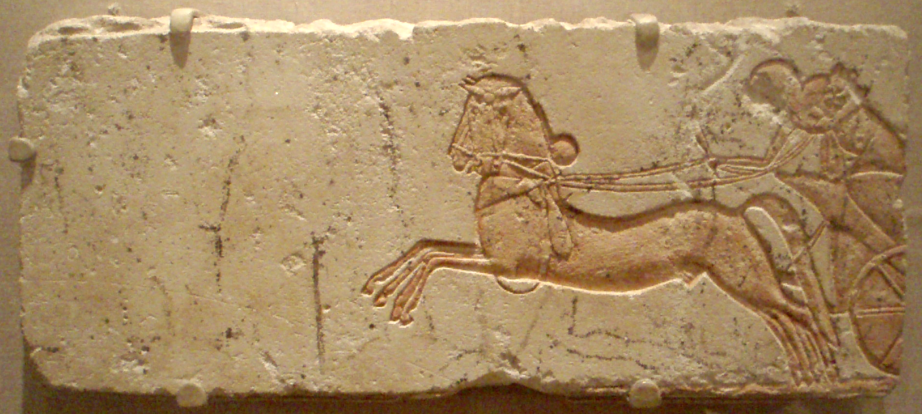 A chariot scene. One of the horses looks directly at the viewer which is highly uncharacteristic in Ancient Egyptian art.